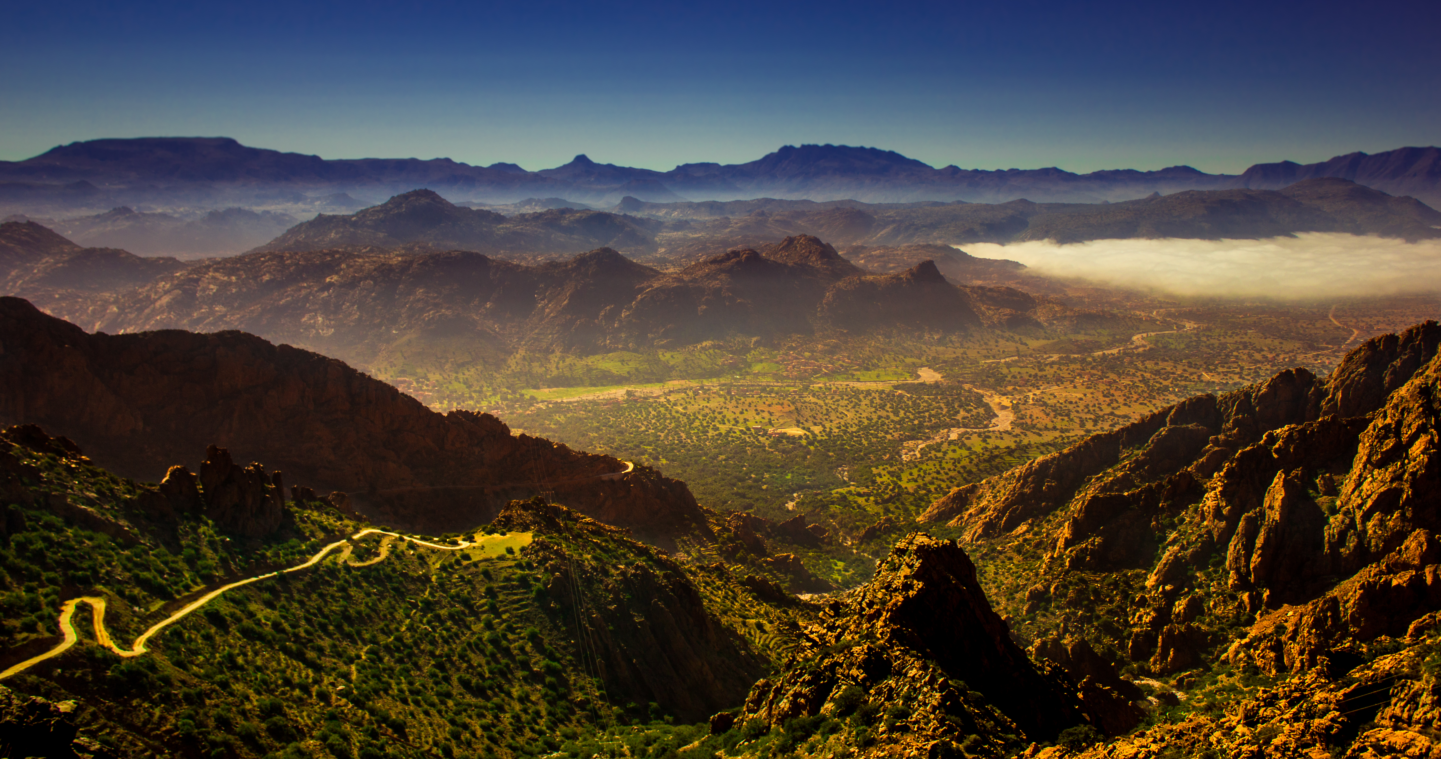 The Ammeln valley is located in the Anti-atlas mountains, near the small city of Tafraout. This photo is taken on the way up to the mountains surrounding the valley.